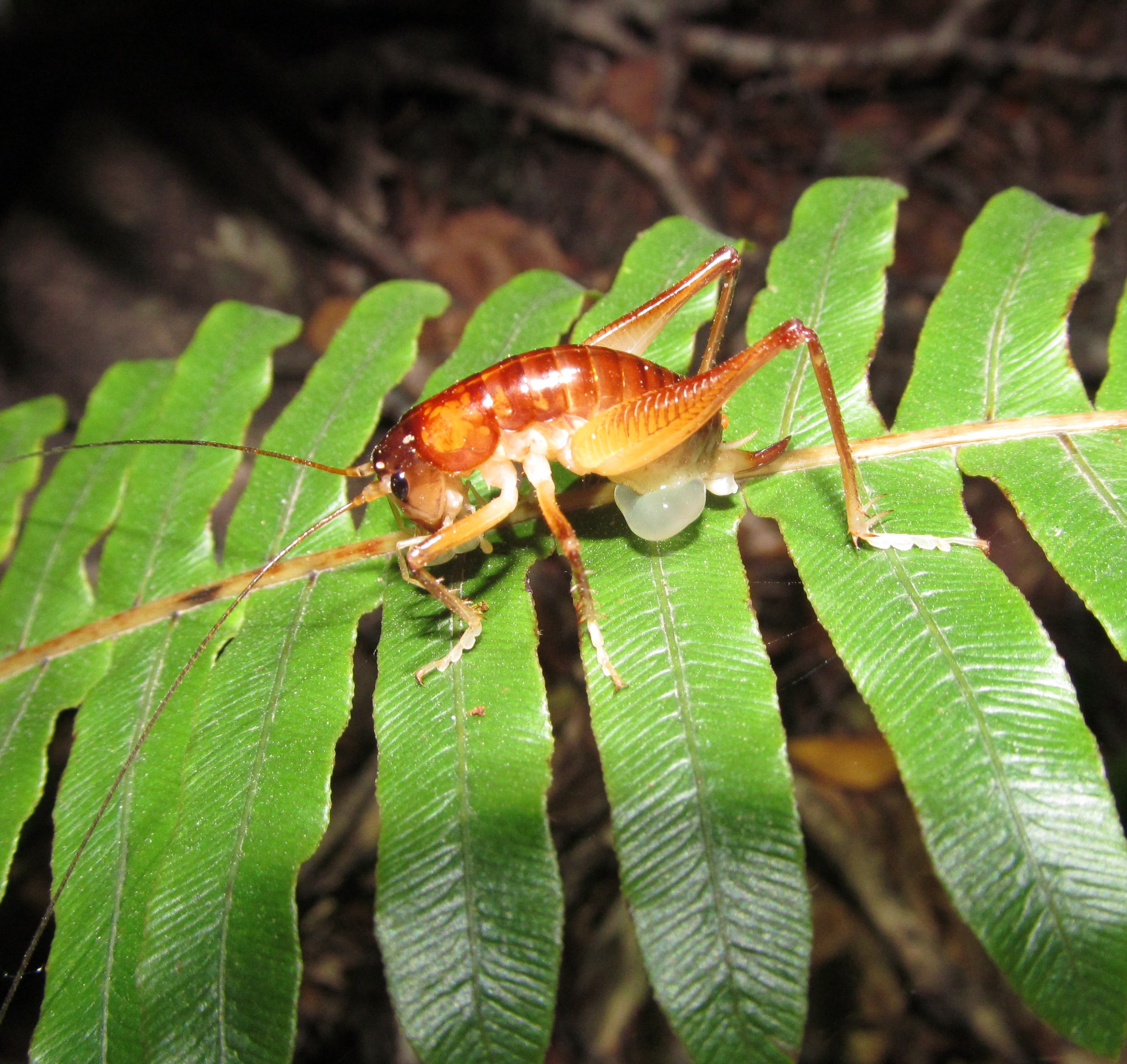 Female Hemiandrus electra female post-mating with nuptial gift attached